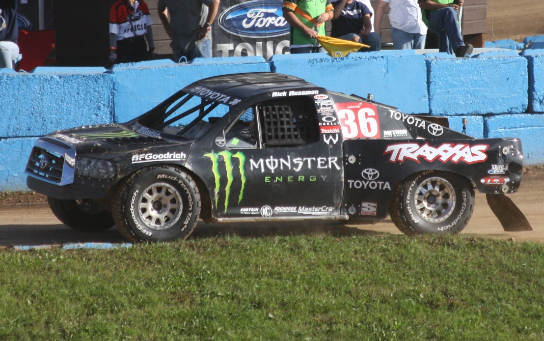 2009 Traxxas TORC Series and 2010 Lucas Oil Off Road Racing champion Rick Huseman racing his Pro 4 Trophy Truck at the BorgWarner World Championship races at Crandon International Off-Road Raceway.